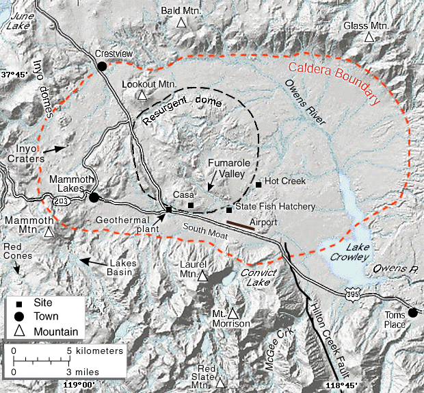 Relief map of the Long Valley Caldera, Mono County, Eastern California.